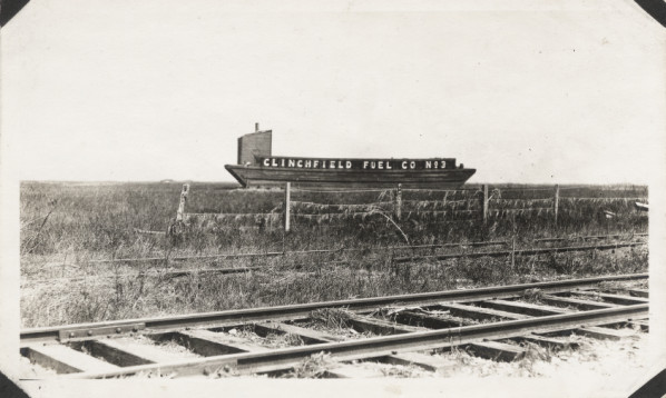 Coal barge land locked after 1915 Galveston Hurricane